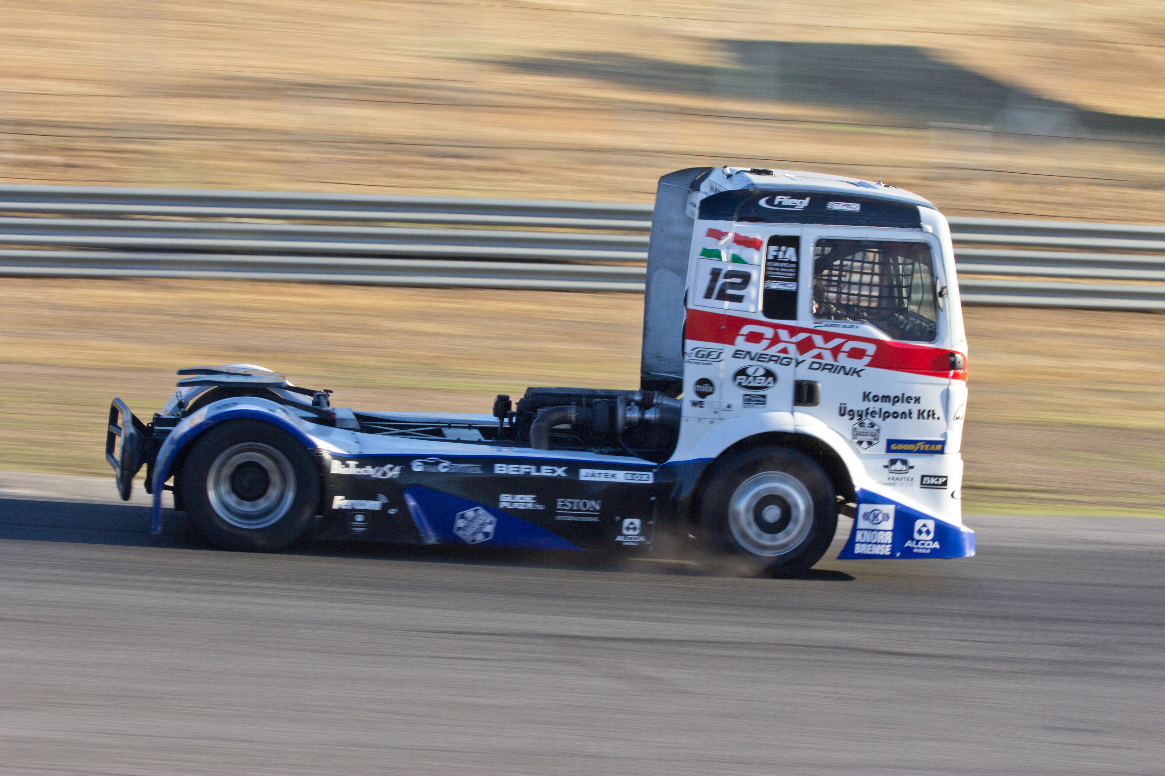 Truck pilot Benedek Major at the Spain Truck GP 2013.